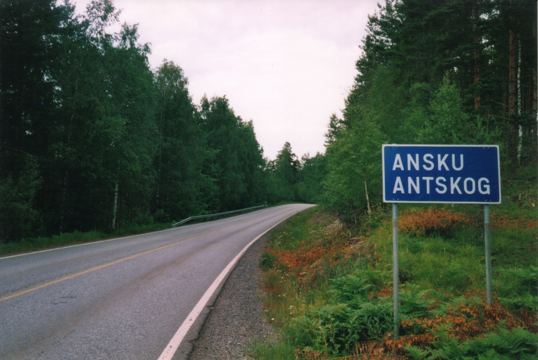 Bilingual roadsign in Antskog (Ansku), Raseborg (Raasepori), Finland